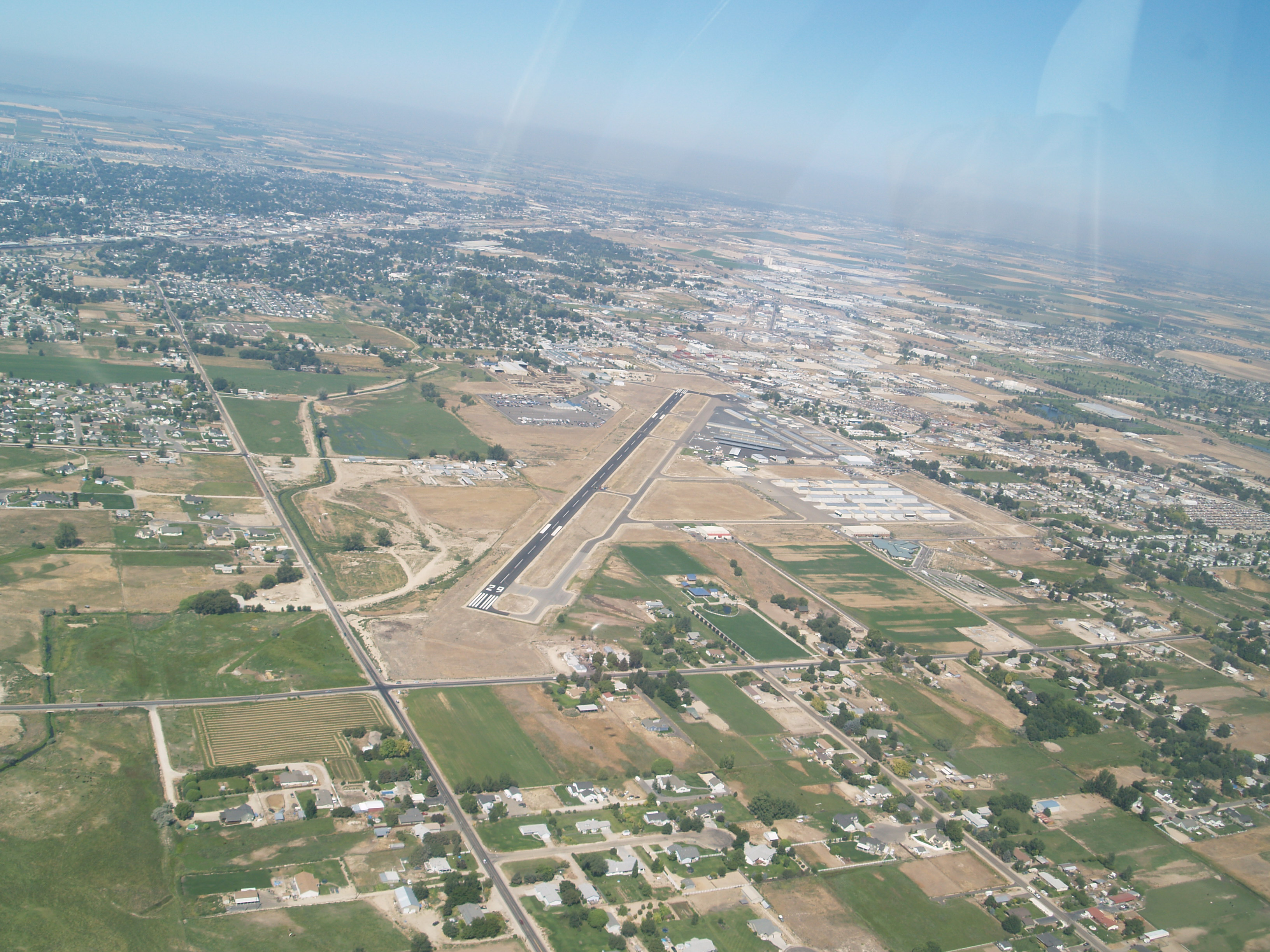 This is a photo of the Nampa airport I took out of the back of a T-28 Trojan flying for an event for the Warhawk Air Museum. is the same photo on Flickr.